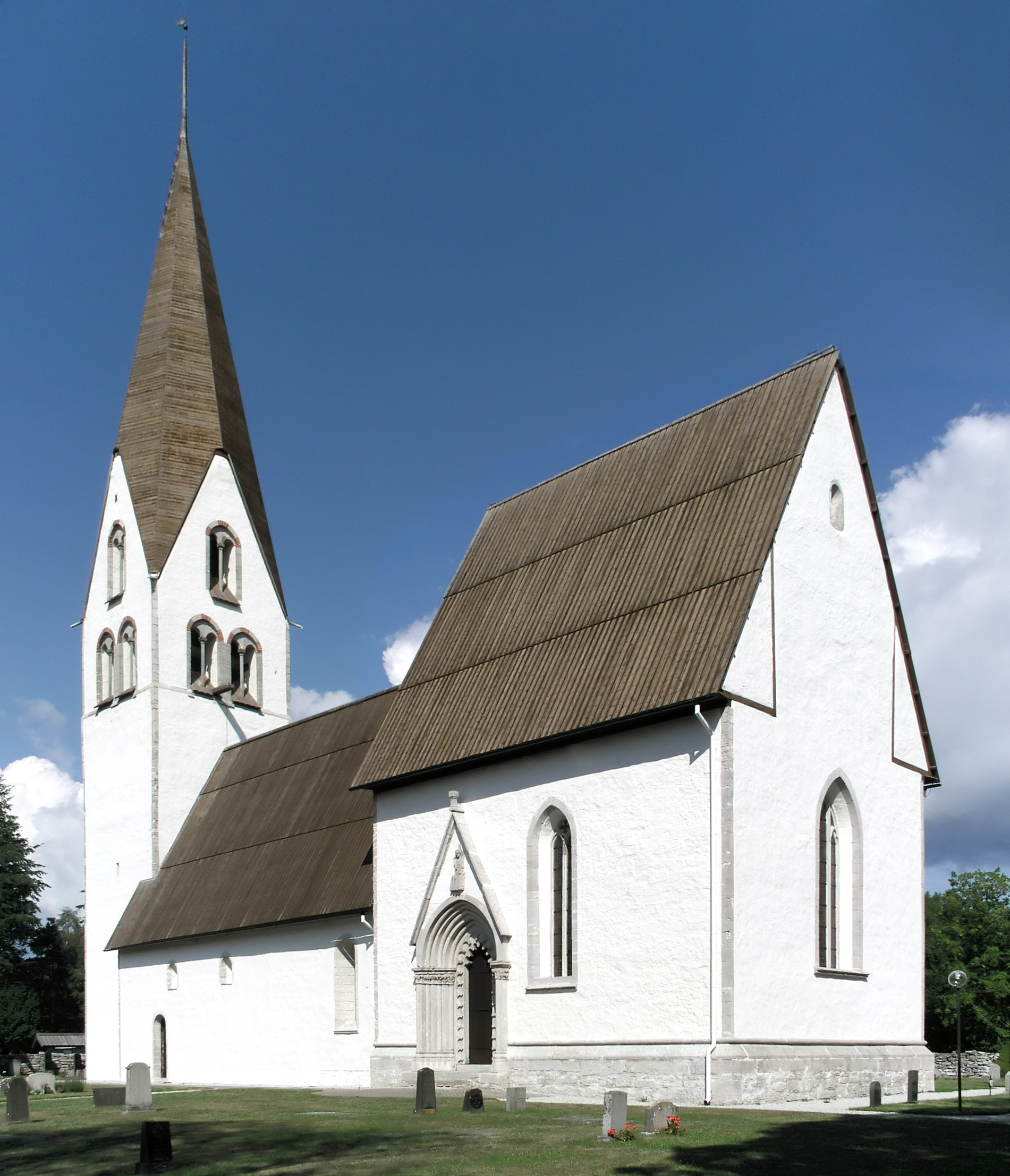 Garda (Garde) kyrka / Garda (Garde) church is situated at Garde, Gotland, Sweden.